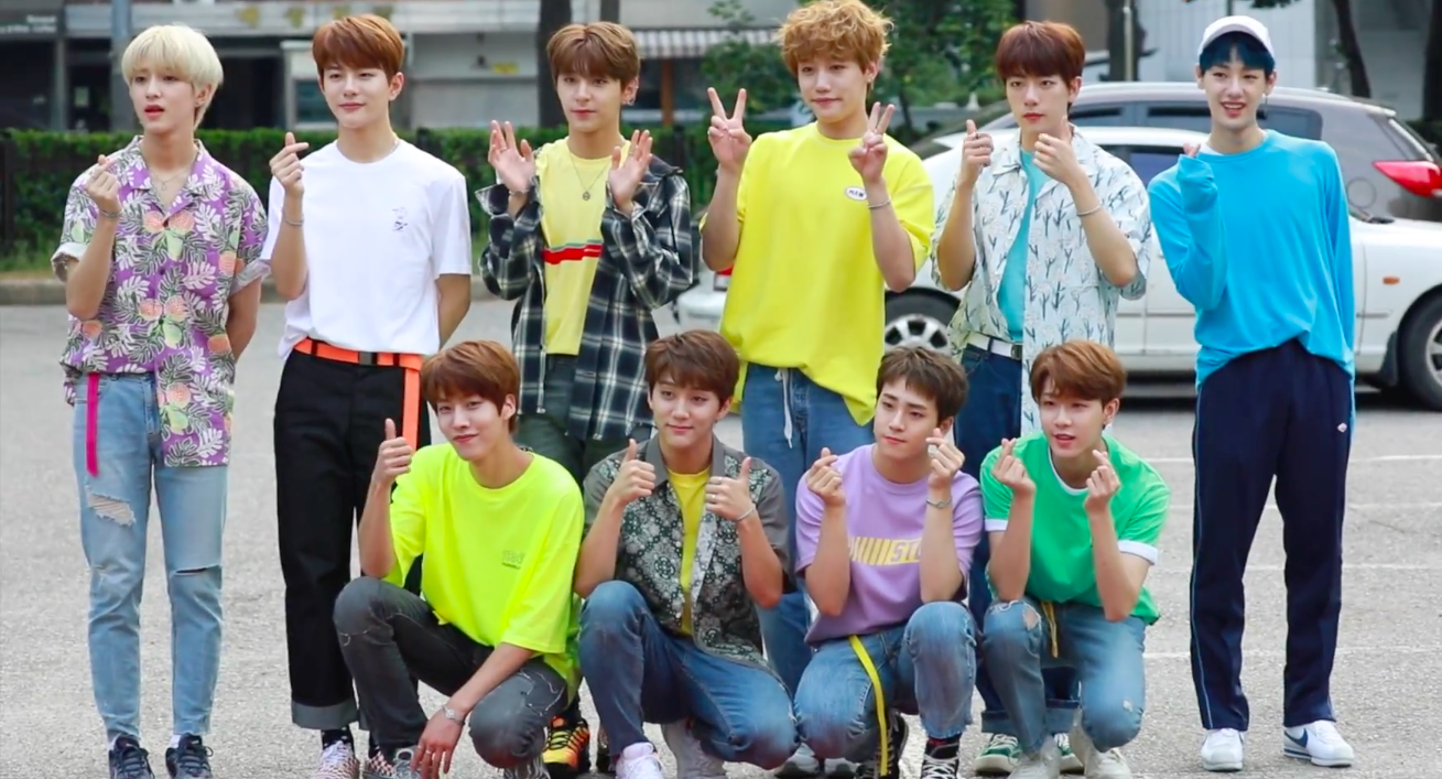 Golden Child, promoting for single Let Me, in August 2018